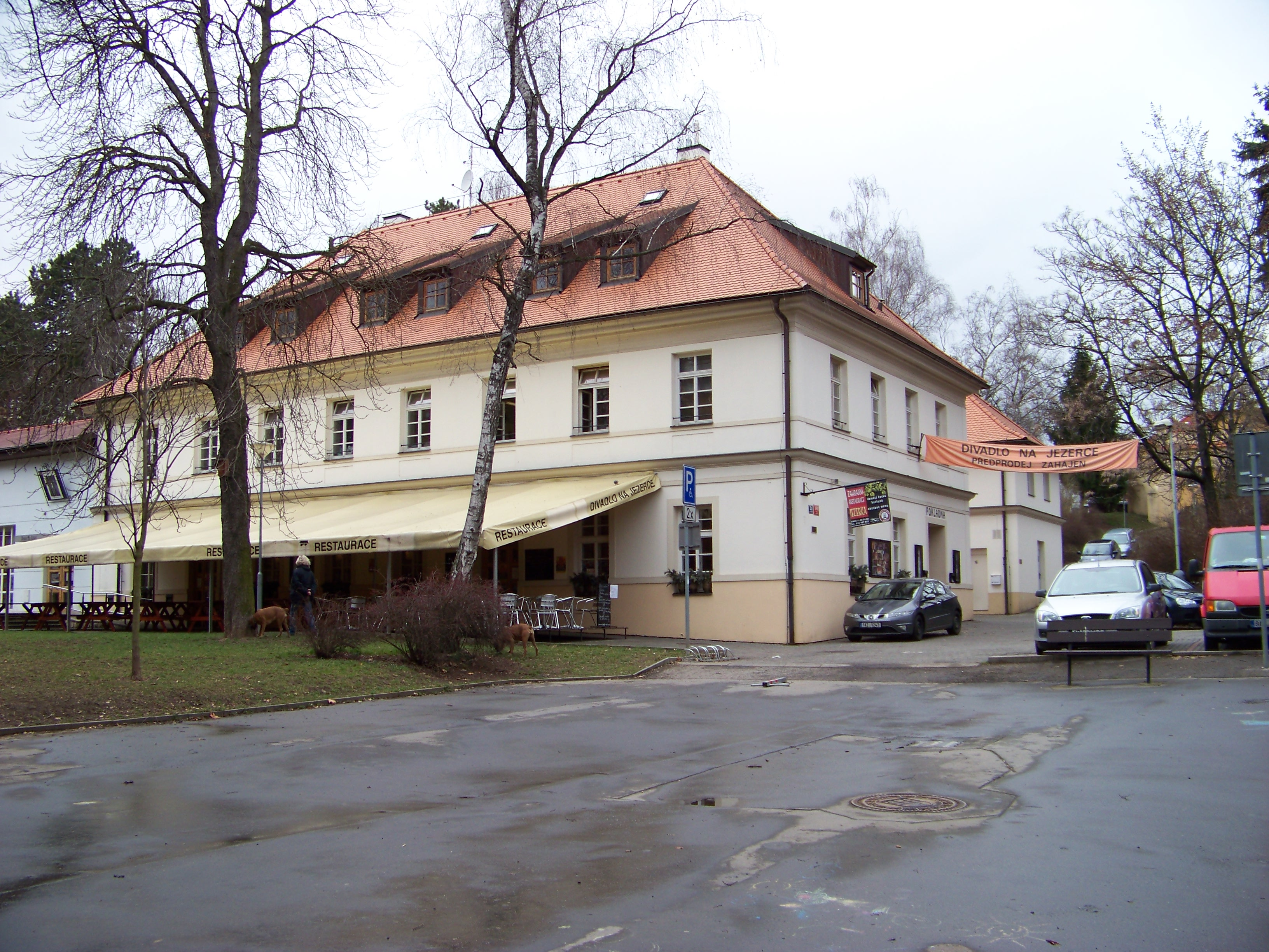 Prague-Nusle, the Czech Republic. Na Jezerce 1451/2, Jezerka homestead, a theatre with a restaurant.